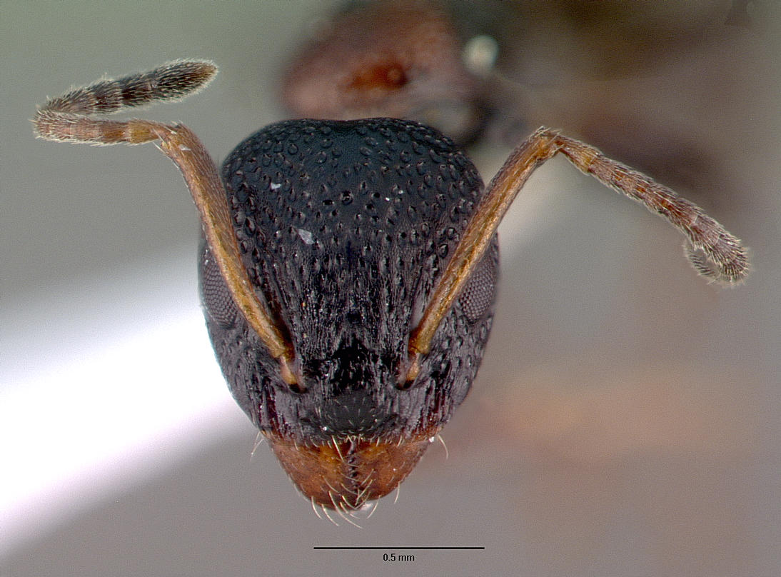 Head view of ant Dolichoderus sibiricus specimen casent0008644.